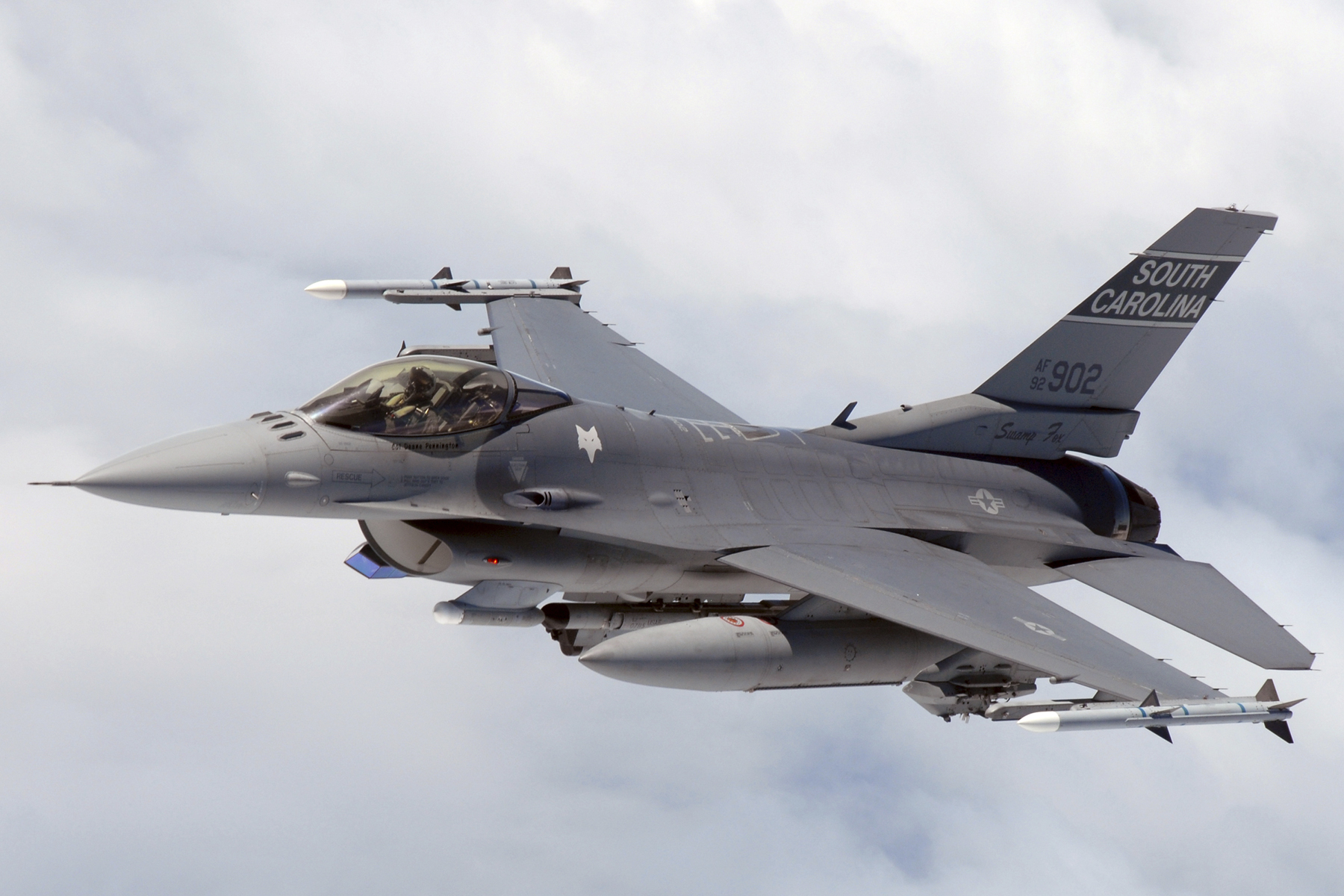 Swamp Fox in flight. F-16 pilot from the 169th Fighter Wing, South Carolina Air National Guard flies a training mission in the KIWI MOA airspace over the coast of North Carolina.